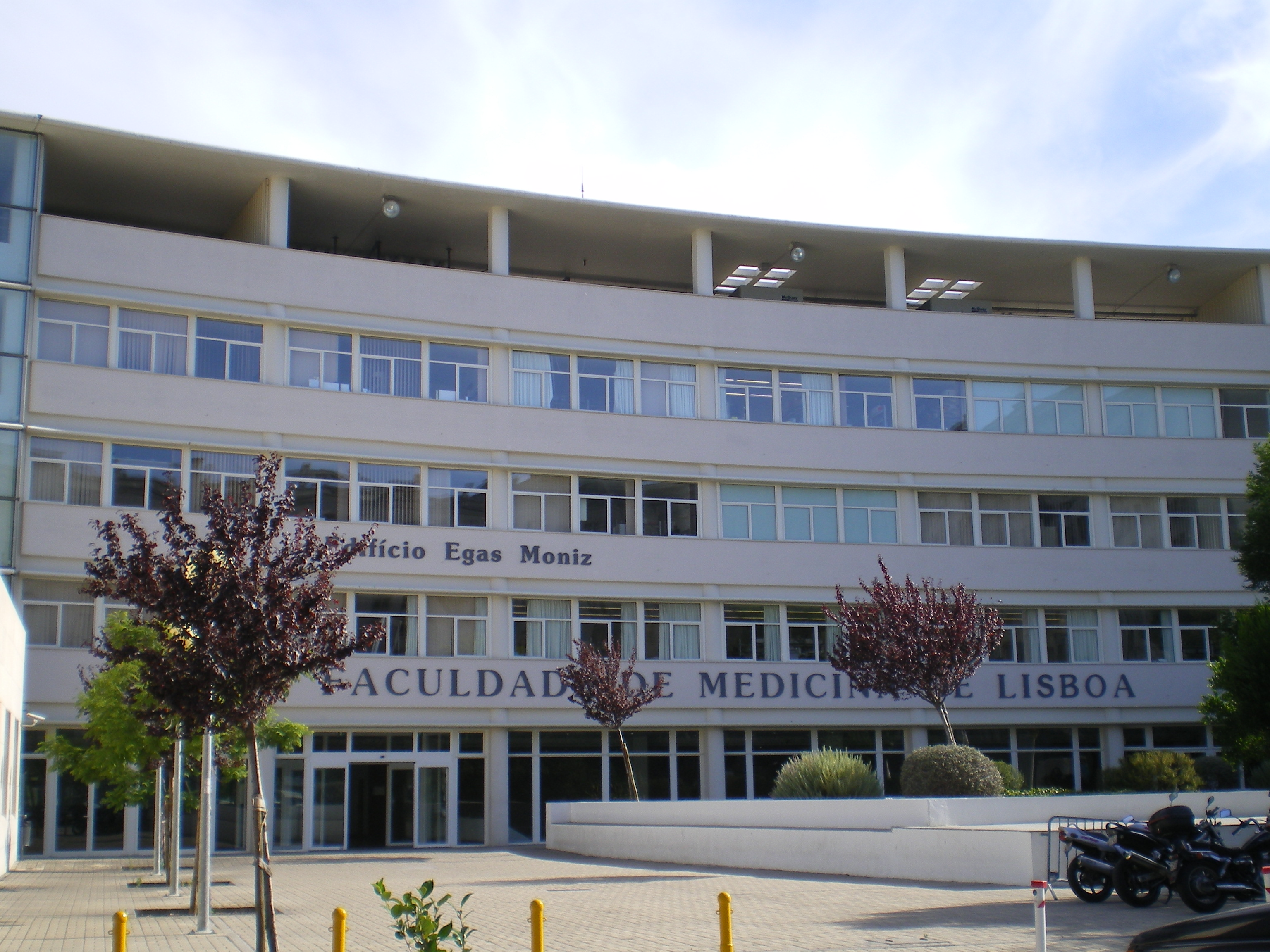 Egas Moniz Building, Faculty of Medicine of the University of Lisbon